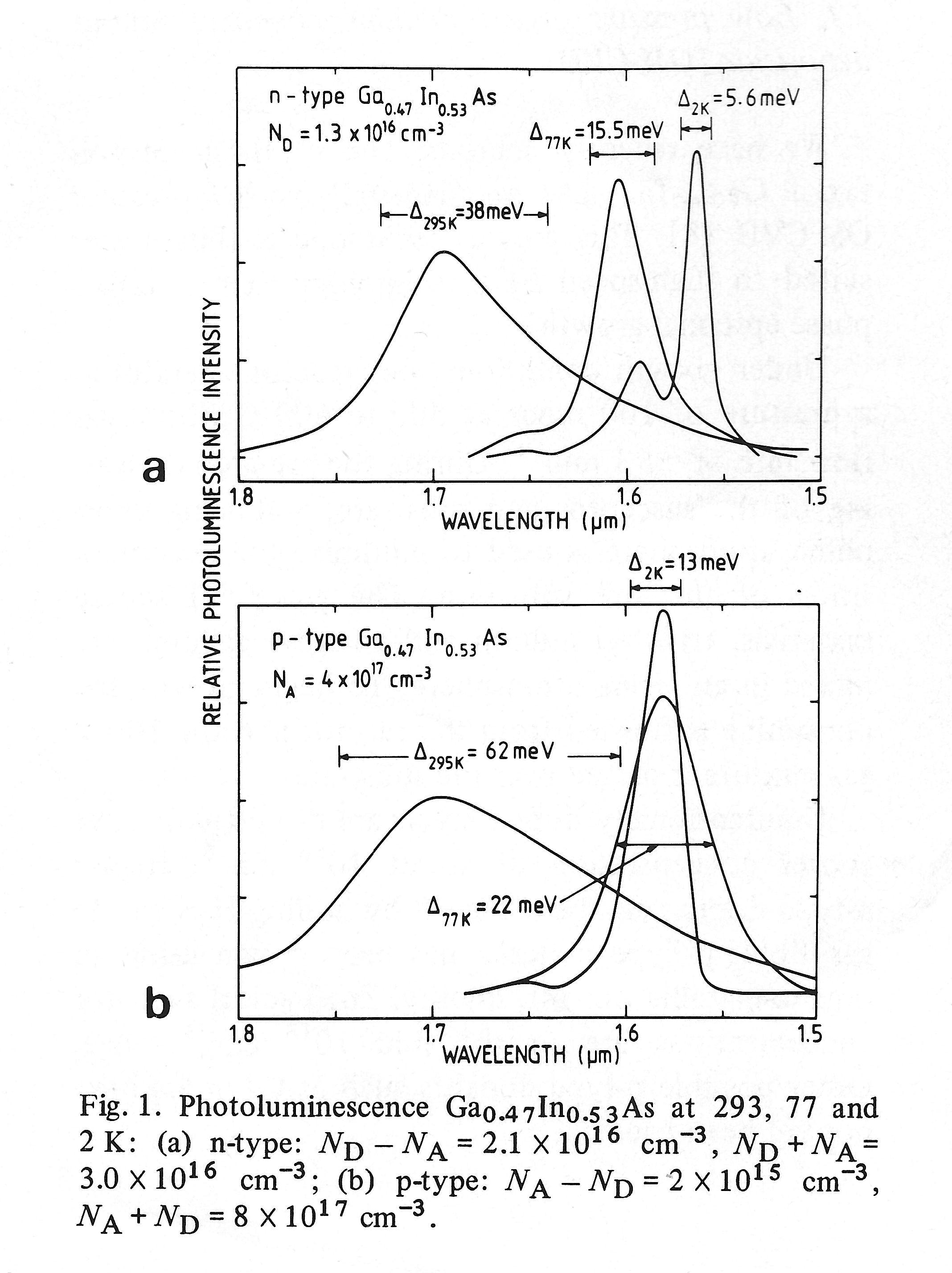 Experimental photoluminescence spectra of n-type and p-type GaInas taken at different temperatures